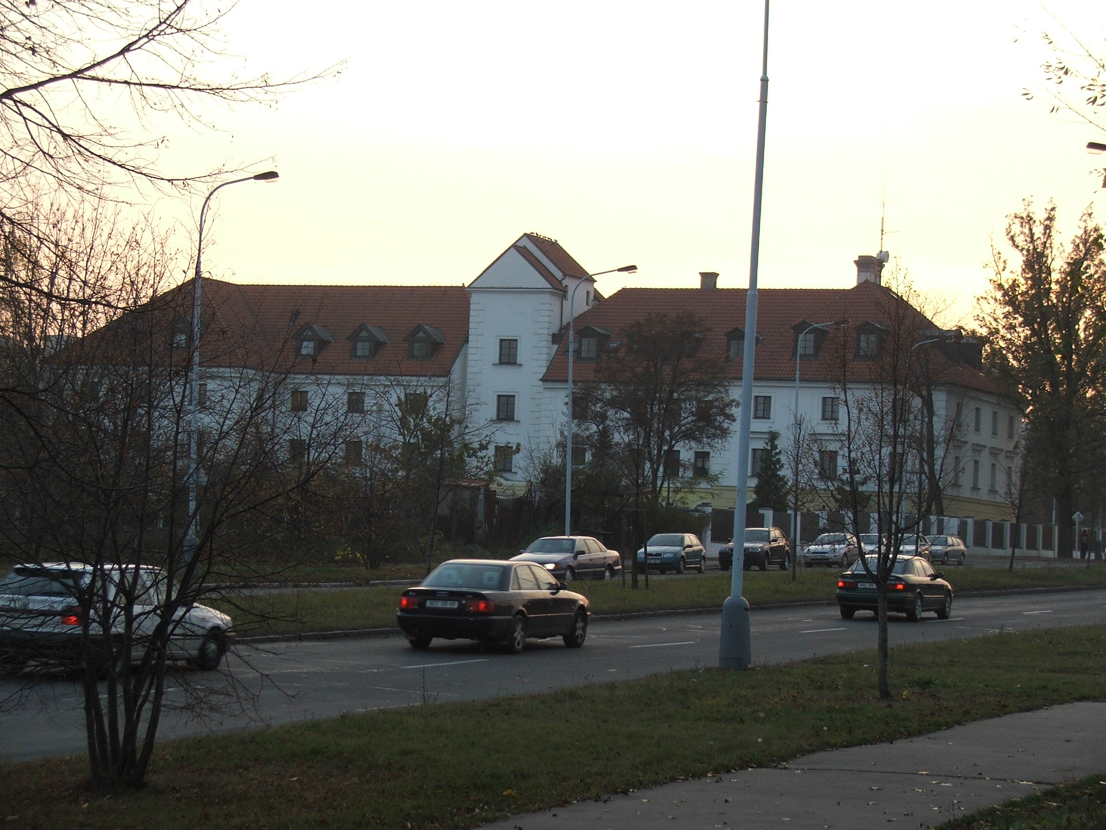 Nové Dvory - Former agriculture settlement south of Prague, now part of Prague 4.